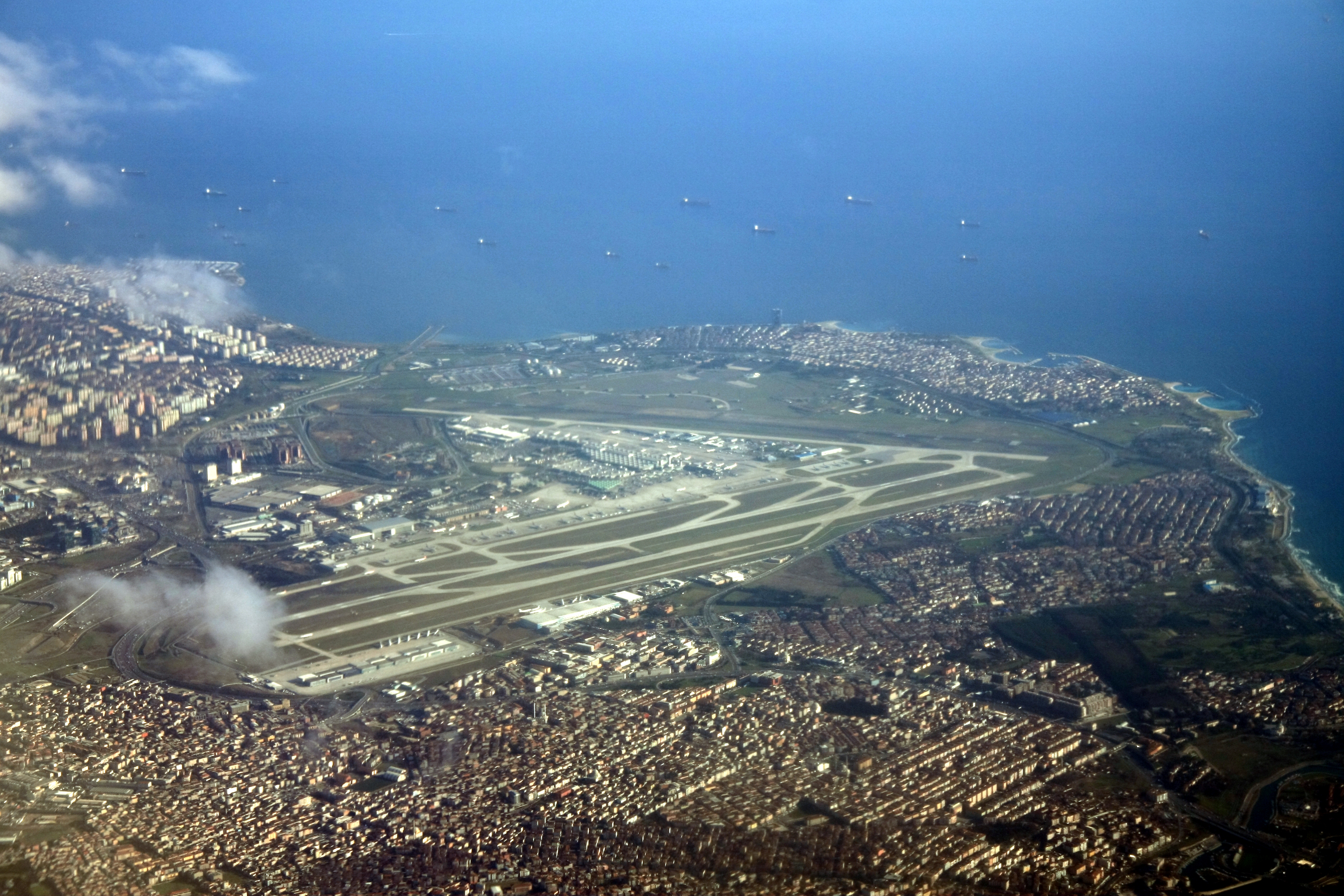 Atatürk International Airport